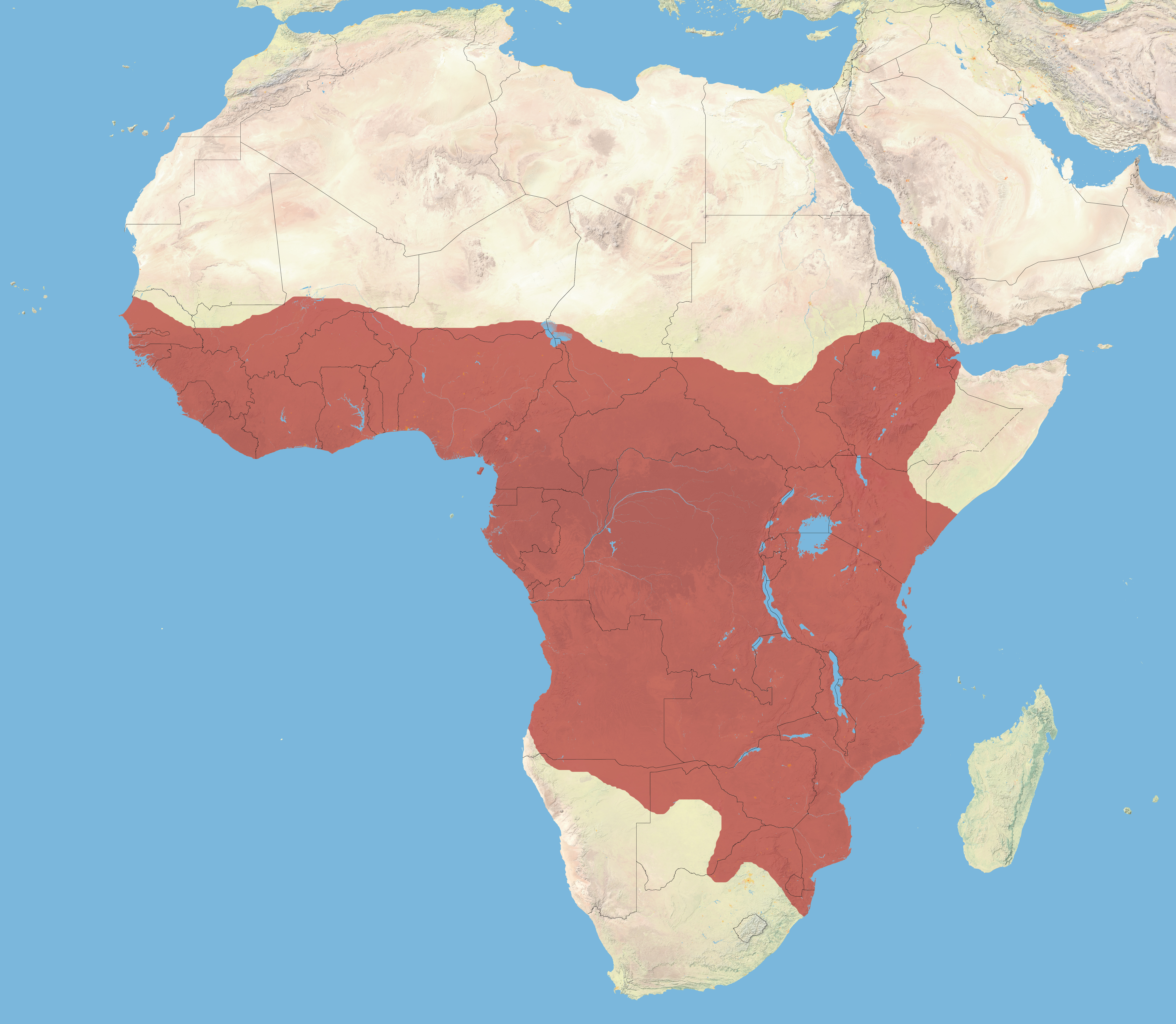 The Distribution of the African Civet According to the IUCN